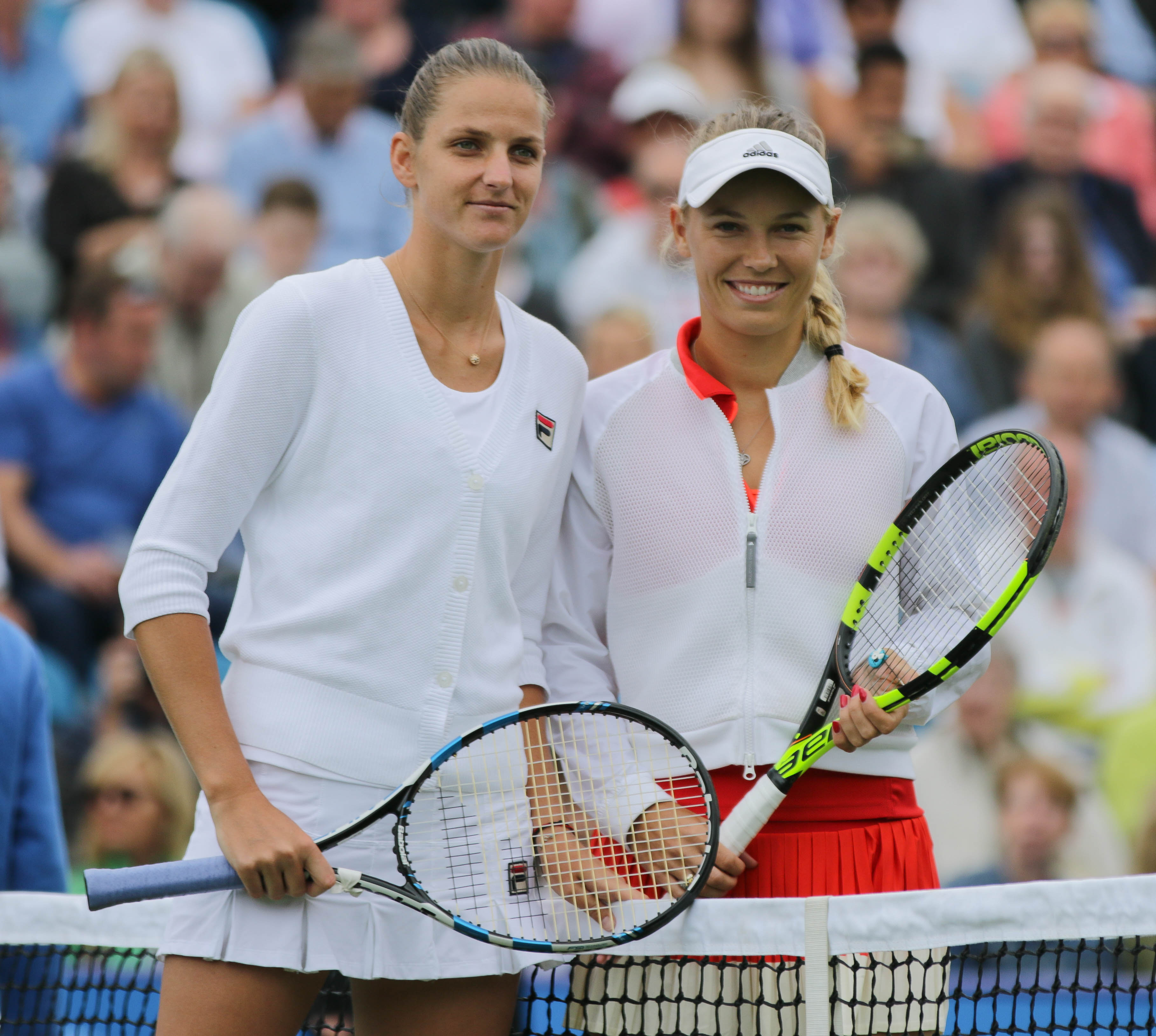 Aegon International Women's Final 2017 Pliscova v Wozniacki-38.jpg